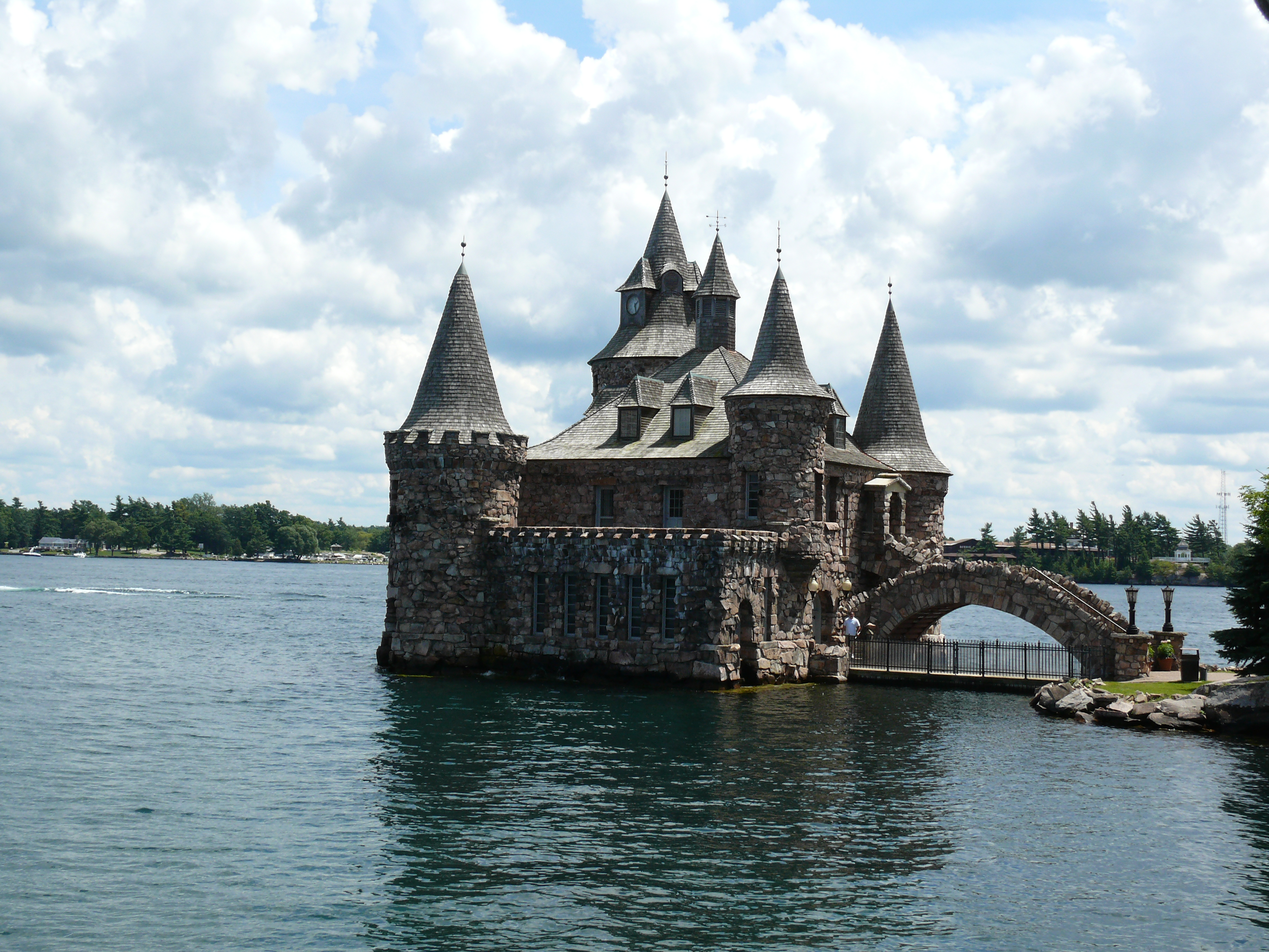 Boldt Castle, located on Heart Island (New York) in the Thousand Islands of the St. Lawrence River opposite Alexandria Bay. The Power House was built to hold a generator to supply the island with power